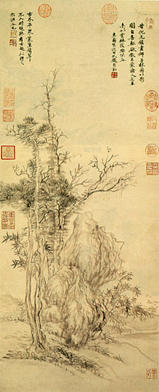 A painting by Qing Dynasty artist Yun Shouping, Old Trees and Bamboo, in the style of the early Ming Dynasty artist Ni Zan.